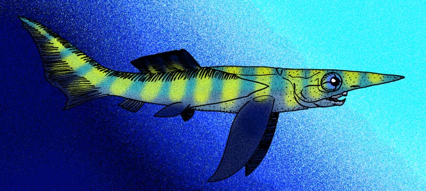 User:Apokryltaros reconstruction of the streamlined arthrodire placoderm, Rolfosteus canningensis, of The Devonian Gogo Reef Formation in Australia.